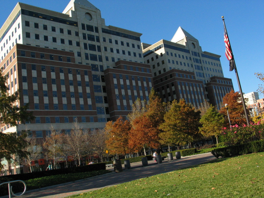 The row of buildings in Hoboken by the waterfront